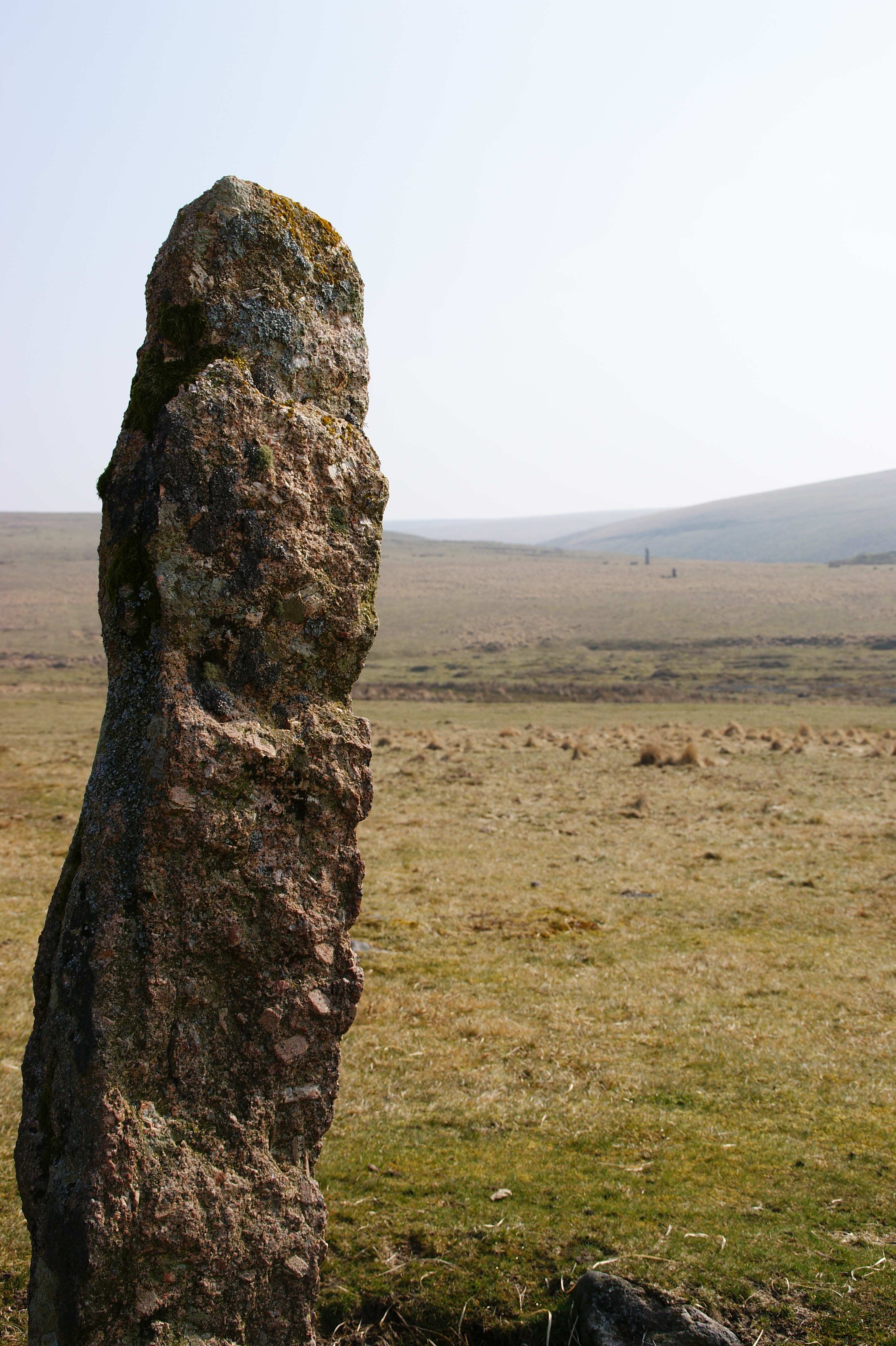 View of the single menhir on the western side of Drizzlecombe on Dartmoor in South Devon, UK. This is adjacent to a large hut circle enclosure. In the distance is the largest menhir.